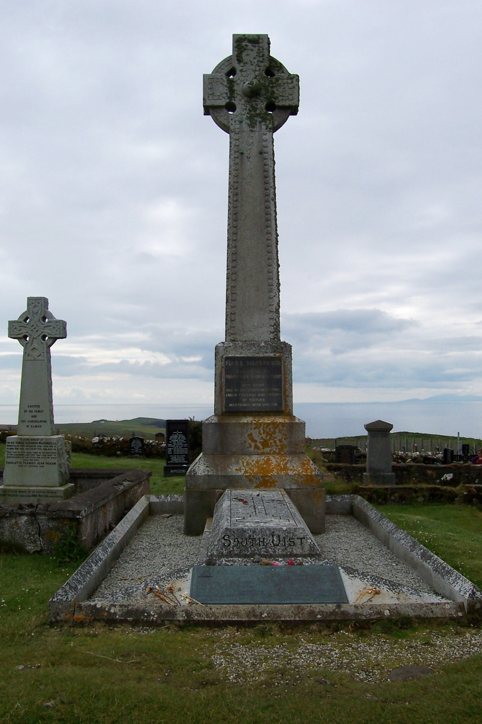 Flora MacDonald's grave in Kilmuir Cemetery on the Isle of Skye.